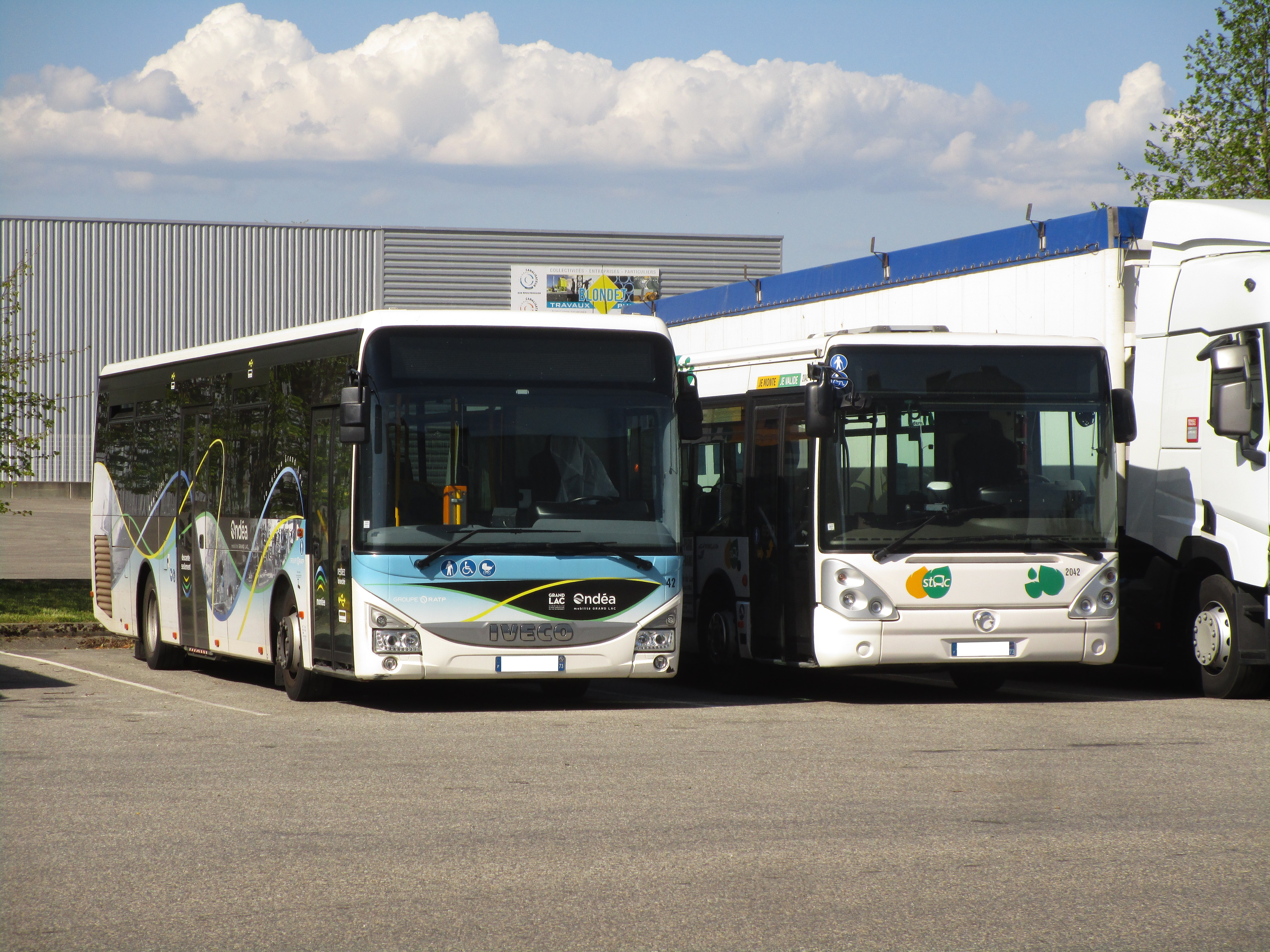 An Iveco Crossway LE (n°42 of the CTLB) and an Irisbus Citelis 12 (n°2042 of the French agglomeration community Chambéry Métropole - Cœur des Bauges) in the stable yard of the Garage Vasseur - Renault Trucks (Voglans, Cognin) on April 14, 2017.